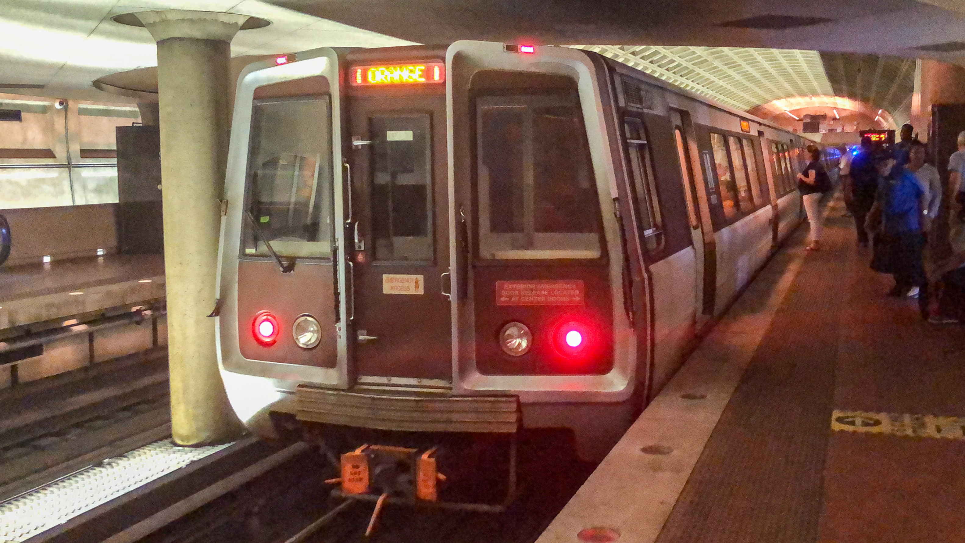 WMATA Orange Line at Smithsonian